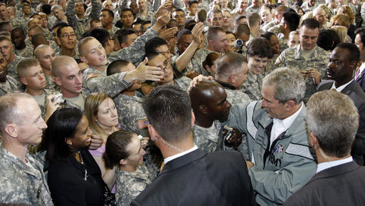 President George W. Bush greets military personnel during his visit to the U.S. Army Garrison-Yongsan Wednesday, August 6, 2008, in Seoul, South Korea.